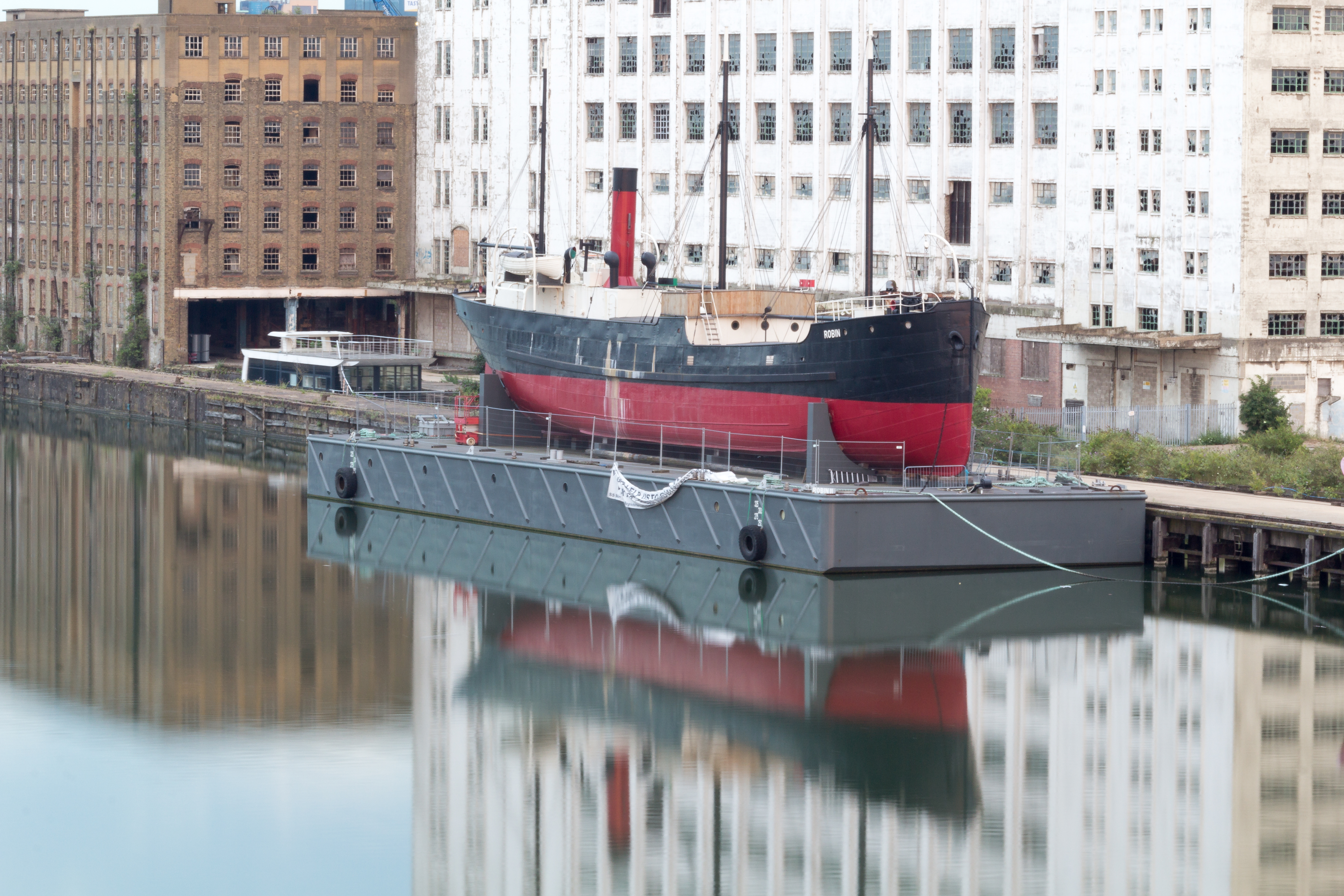 SS Robin, berthed at the Royal Victoria Dock in front of the Millennium Mills and Rank Hovis Premier Mill.